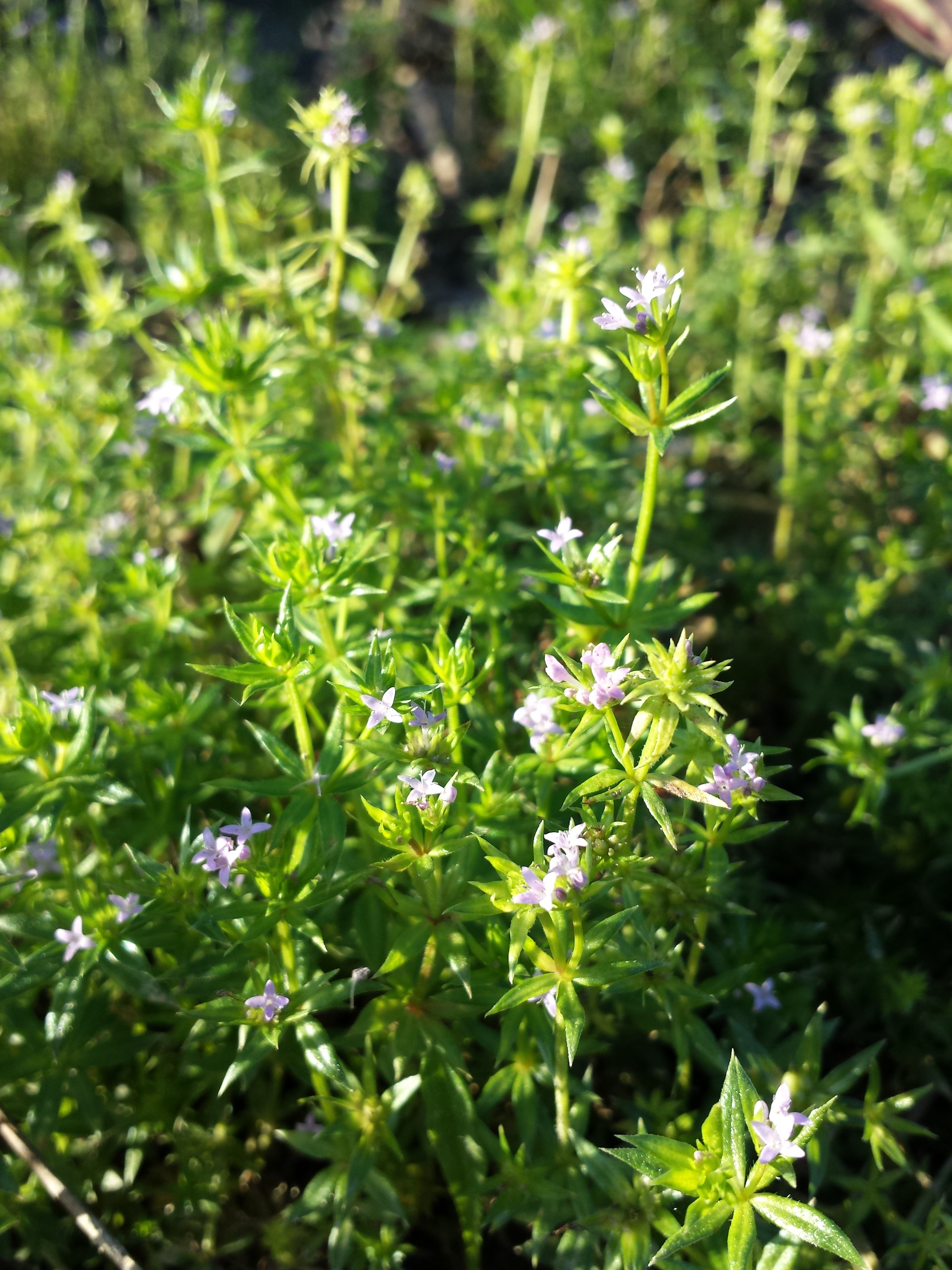 Habitus Taxonym: Sherardia arvensis ss Fischer et al. EfÖLS 2008 ISBN 978-3-85474-187-9 Location: Michelberg, district Korneuburg, Lower Austria - ca. 320 m a.s.l. Habitat: field